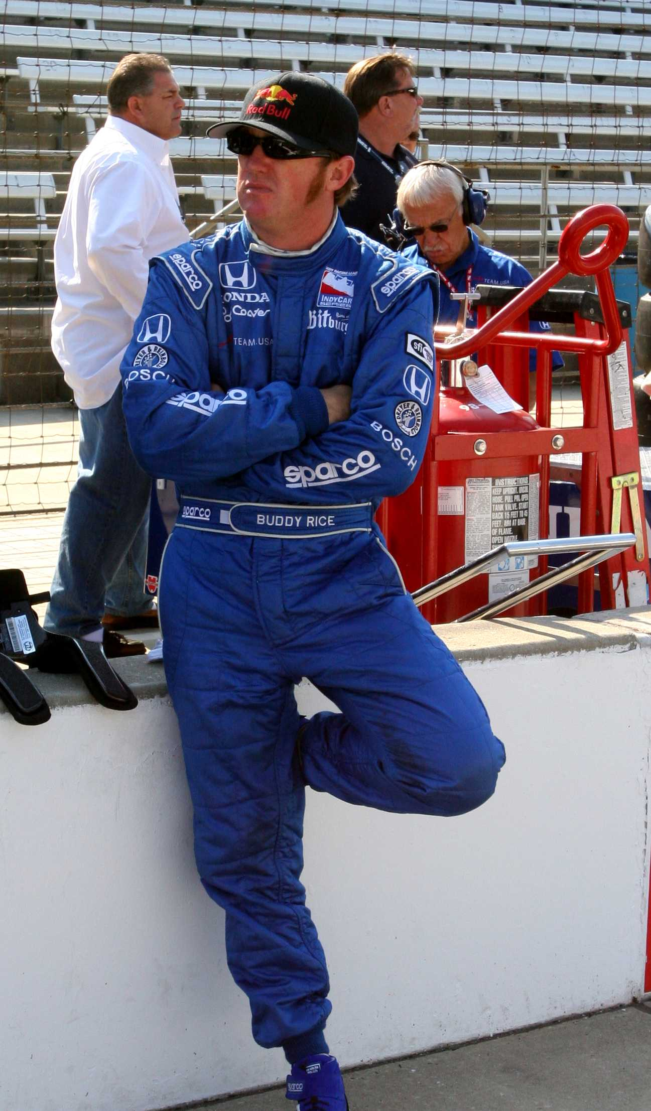 Buddy Rice waits for a qualification attempt before the 2007 Indy 500.